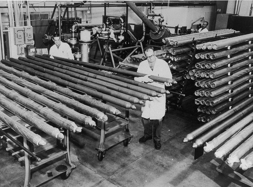 Peach Bottom Nuclear Generating Station. Fuel elements, consisting of uranium and thorium carbides clad in graphite, before they were loaded into the reactor.